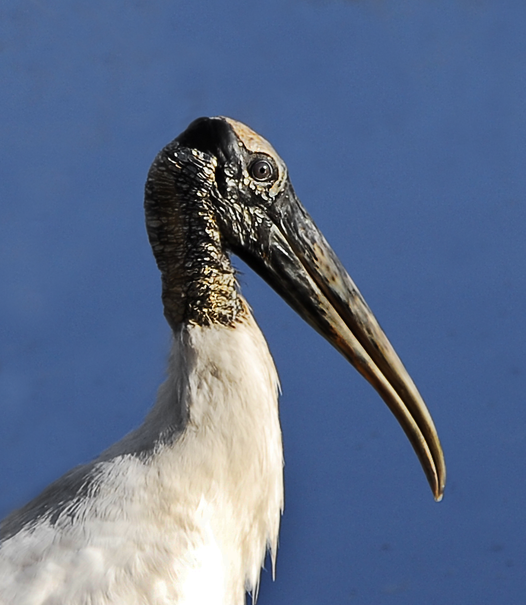 Woodstork Portrait